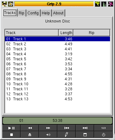 Grip Track listing.